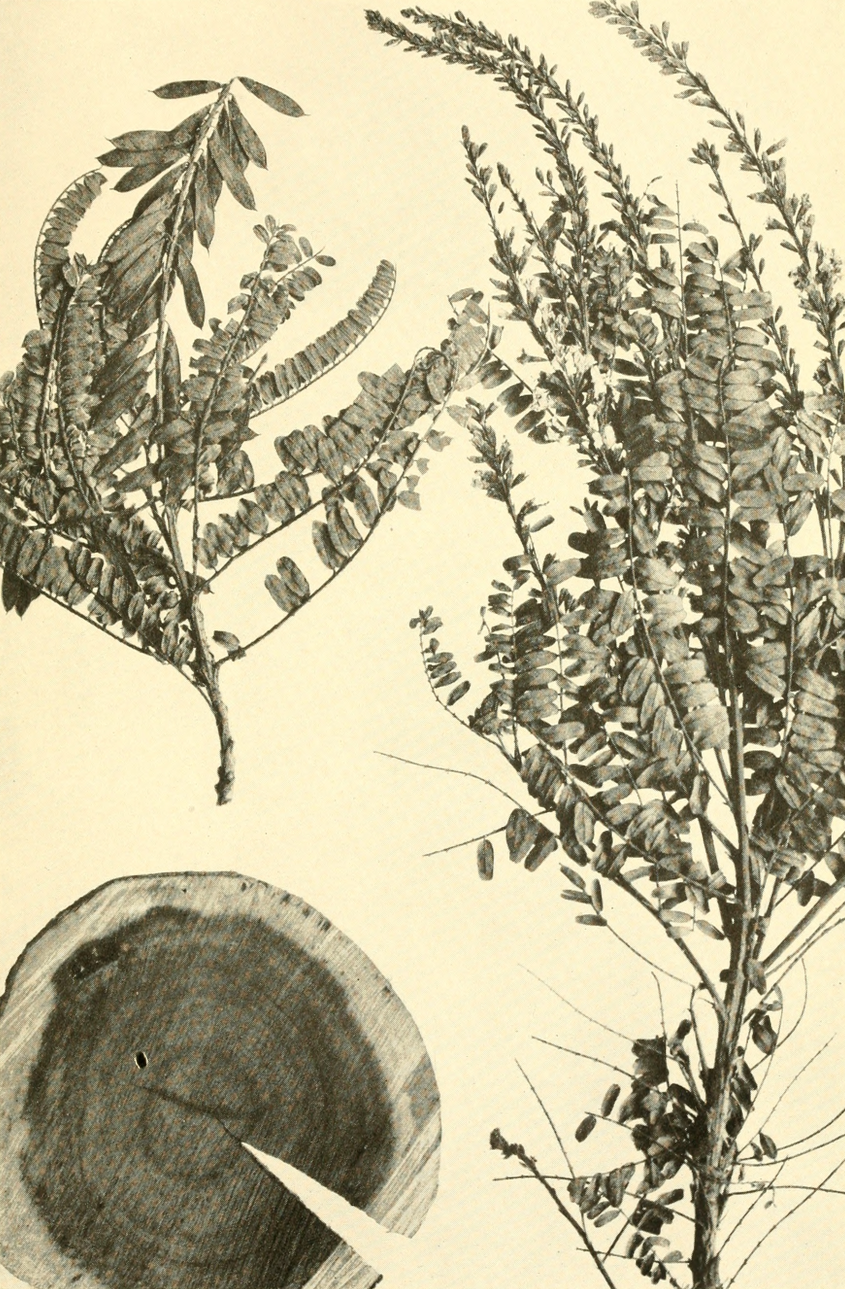 Eysenhardtia polystachya